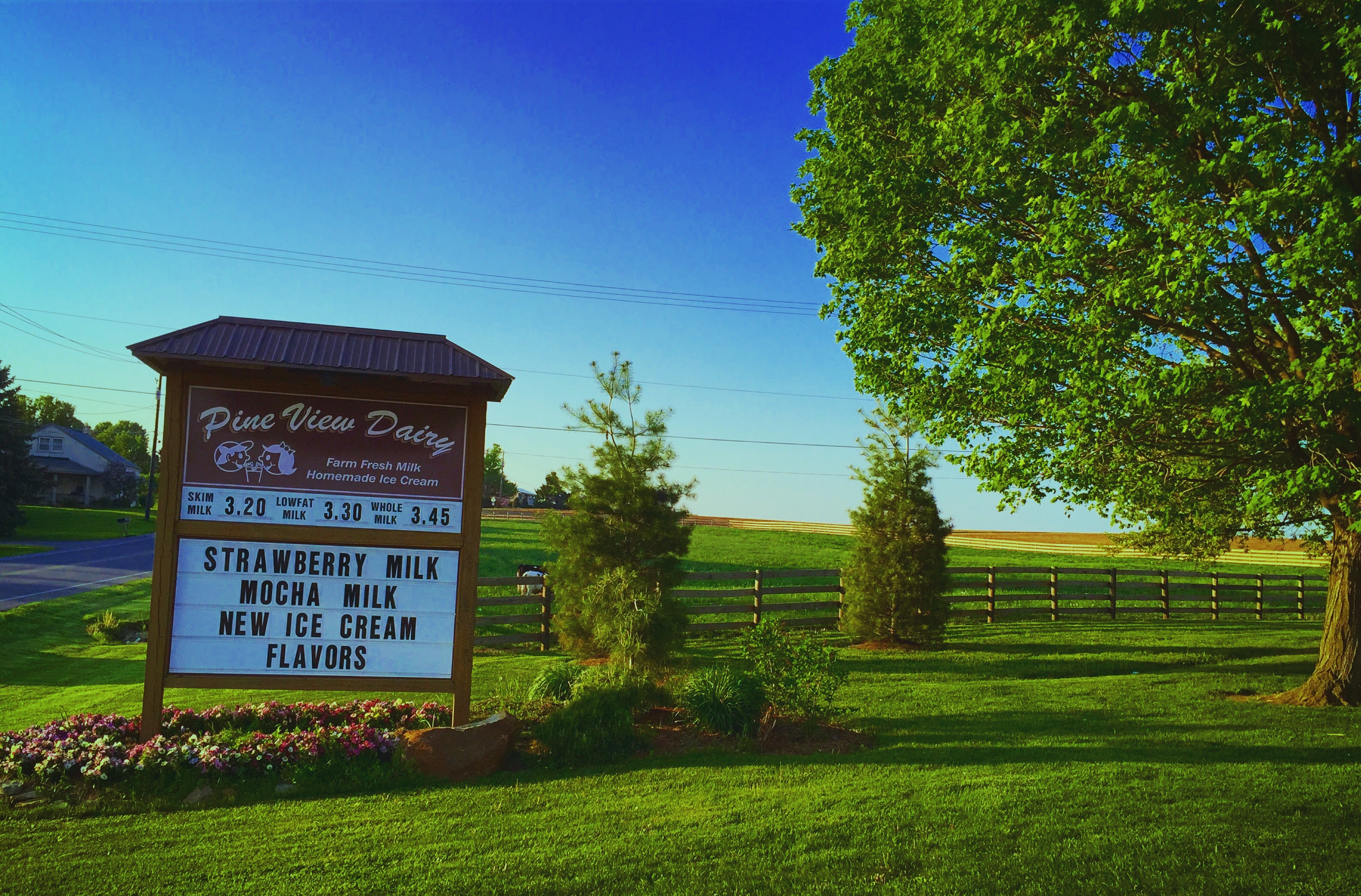 Dairy near New Danville